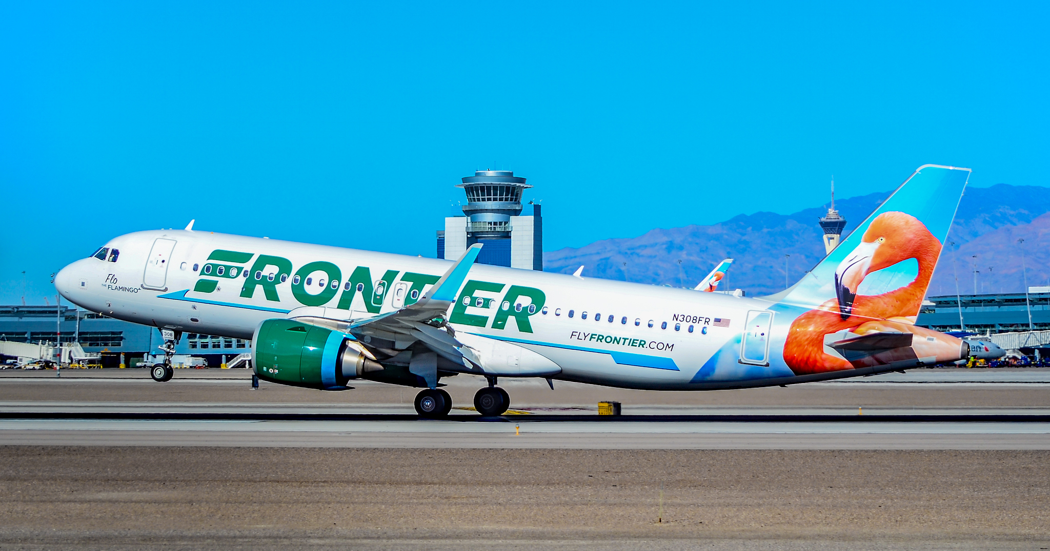 Airbus A320neo Las Vegas - McCarran International (LAS / KLAS) USA - Nevada, January 7, 2018 Photo: Tomás Del Coro